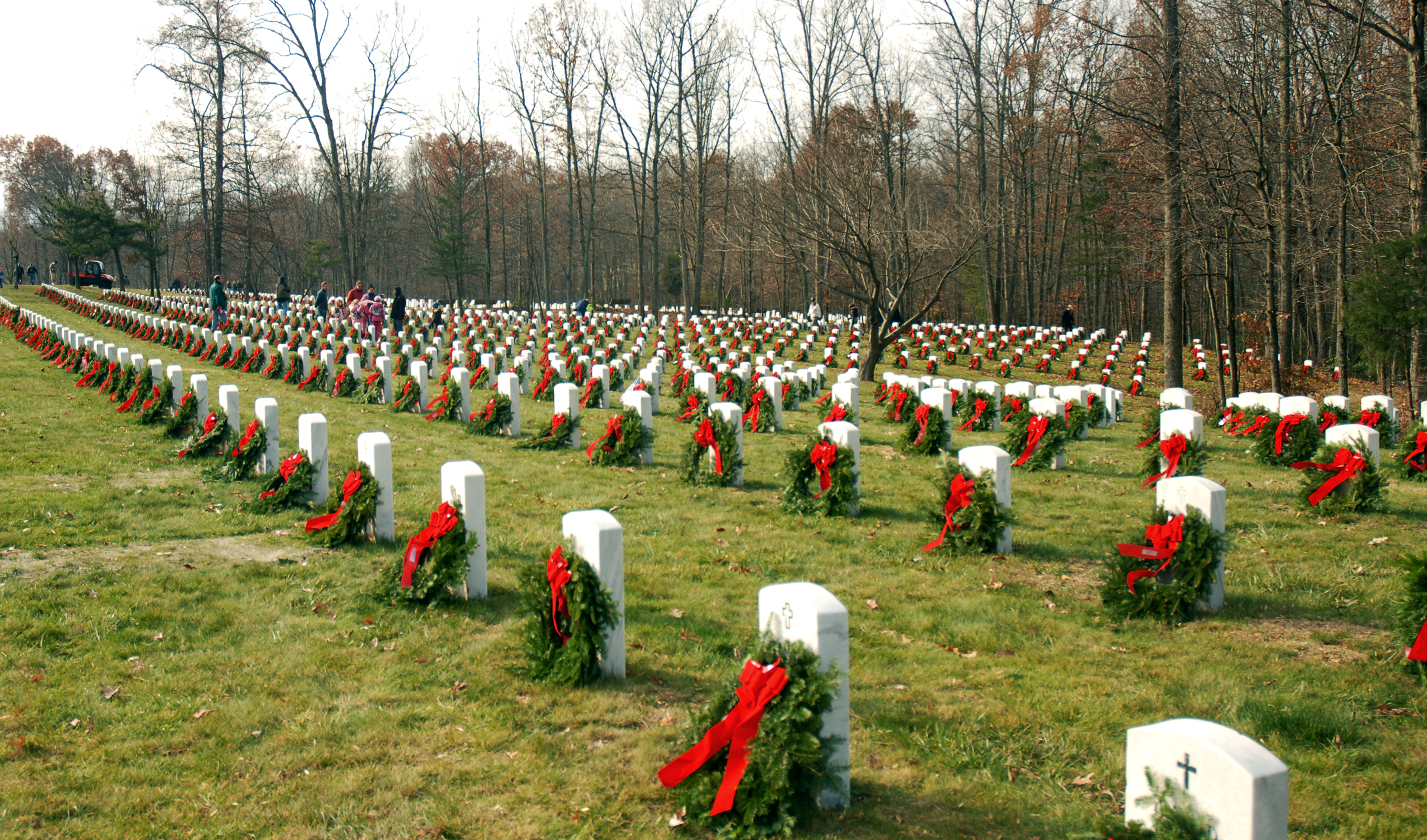 A hundred volunteers with the Sgt. Mac Foundation placed wreaths on 2,200 graves at the Quantico National Cemetery Saturday, December 6, for the third annual National Wreath Project, to honor interred service members.